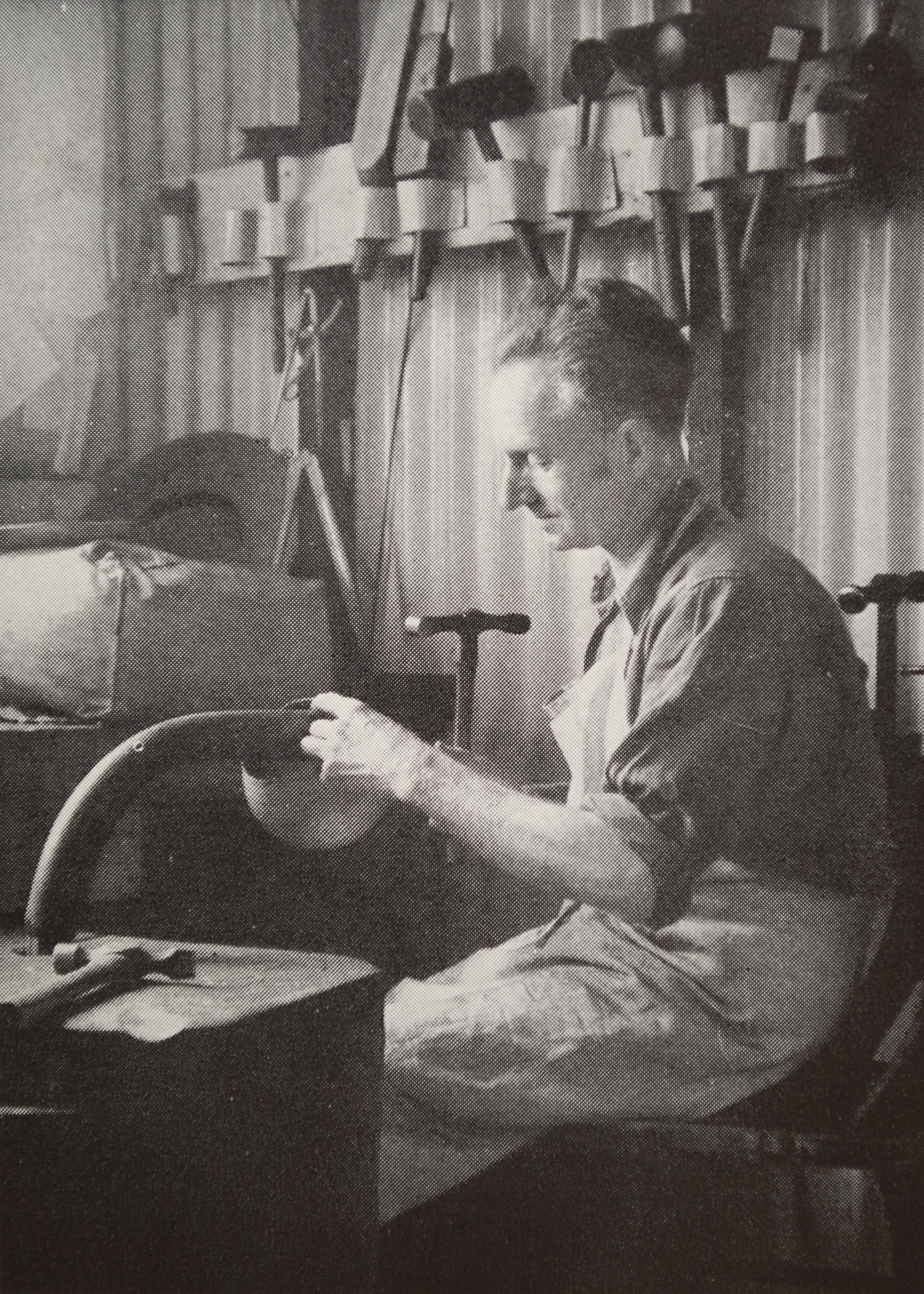 English artisan in copper Francis Cargeeg in his workshop 1951